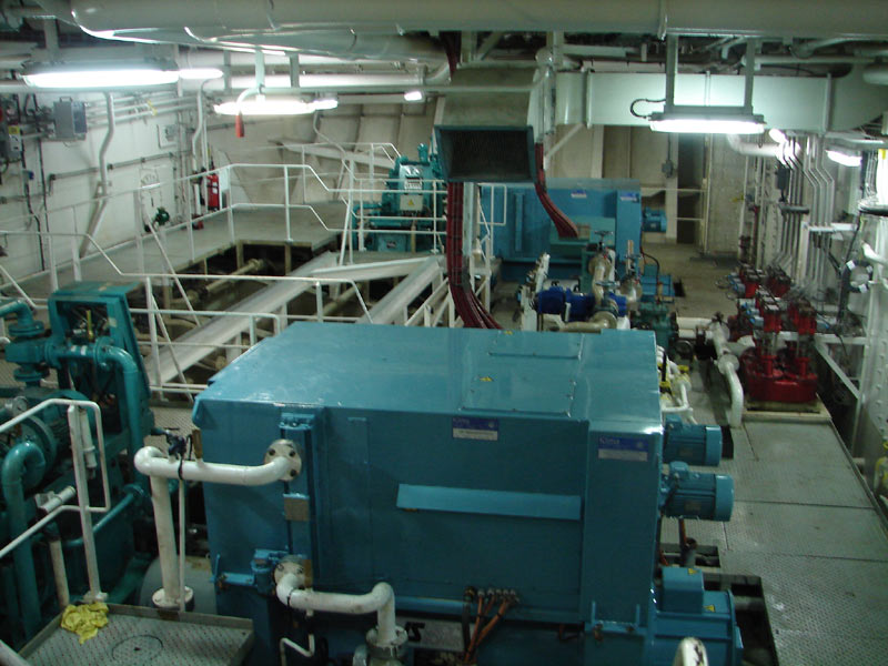 The two main propulsion engines onboard the dredge Samuel De Champlain.